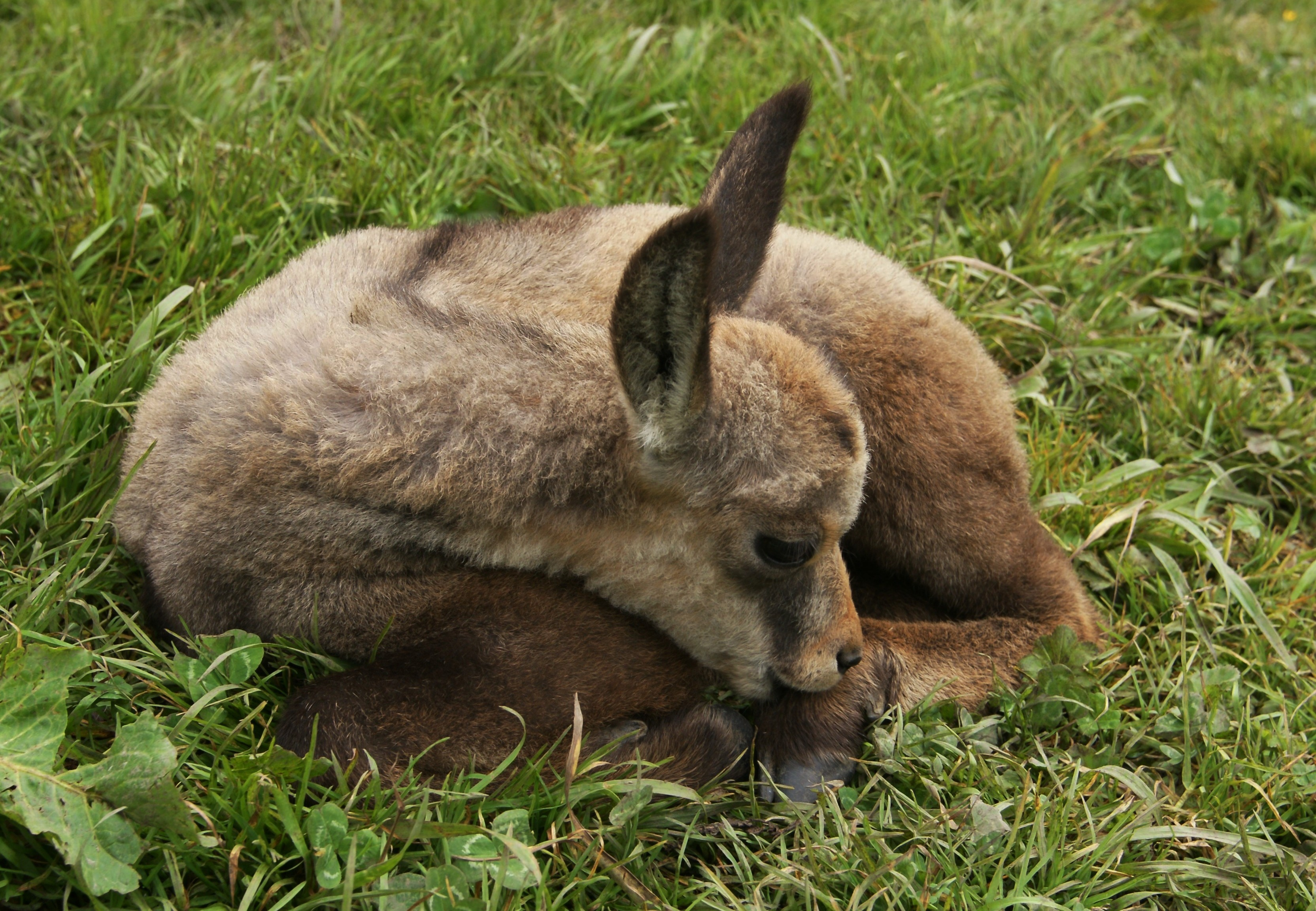 In the picture an outcast Chamois (ca.3 weeks old), when a goat suckles. Under the dark spot on the forehead is the horn approach. Seen on the Kanisalpe whether Mellau.